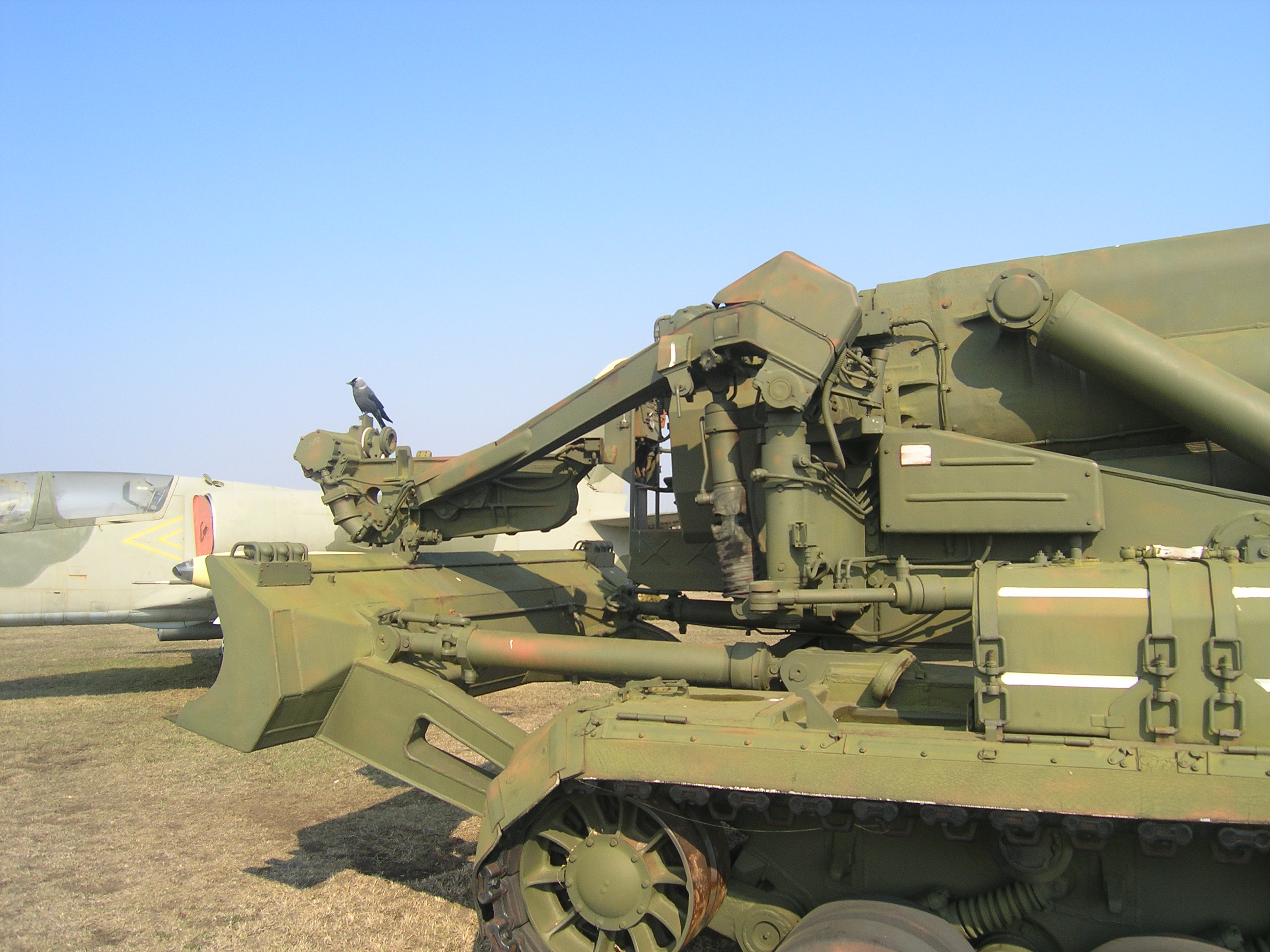 203-mm self-propelled gun 2S7 «Pion» in Techical museum Togliatti